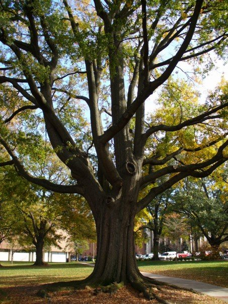 The historic Georgia Tech trees on central campus Midtown Atlanta.